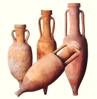 Elba wreck